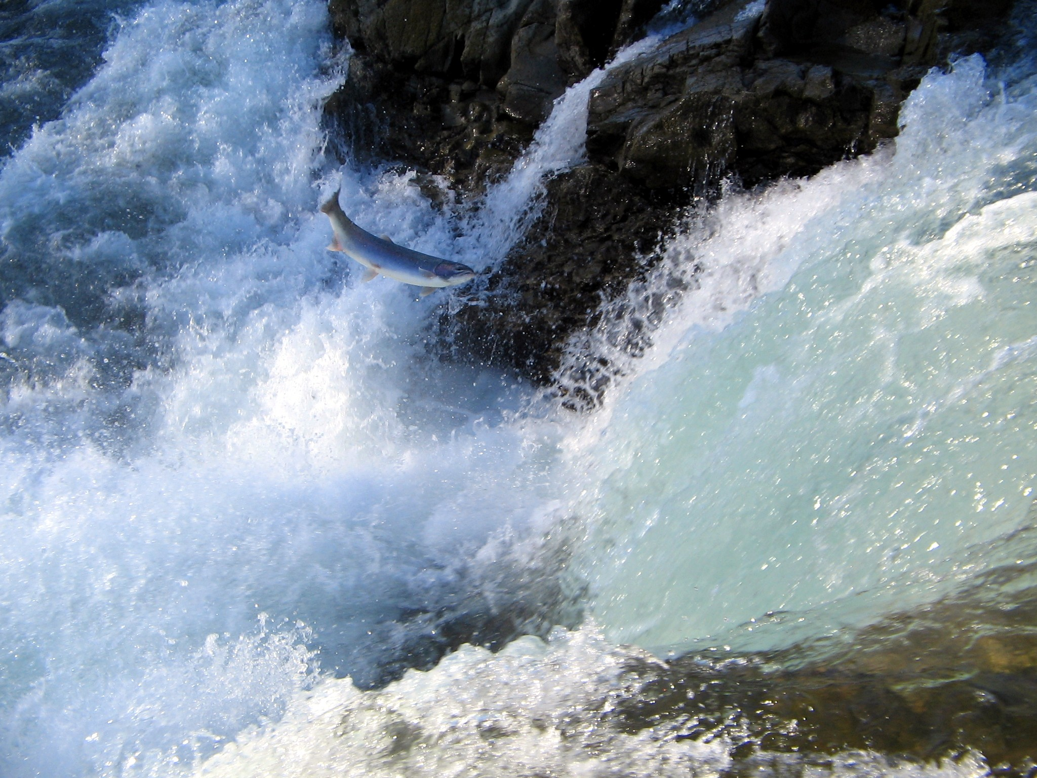 A steelhead attempting to jump over some rapids at Moricetown Canyon in British Columbia, Canada.